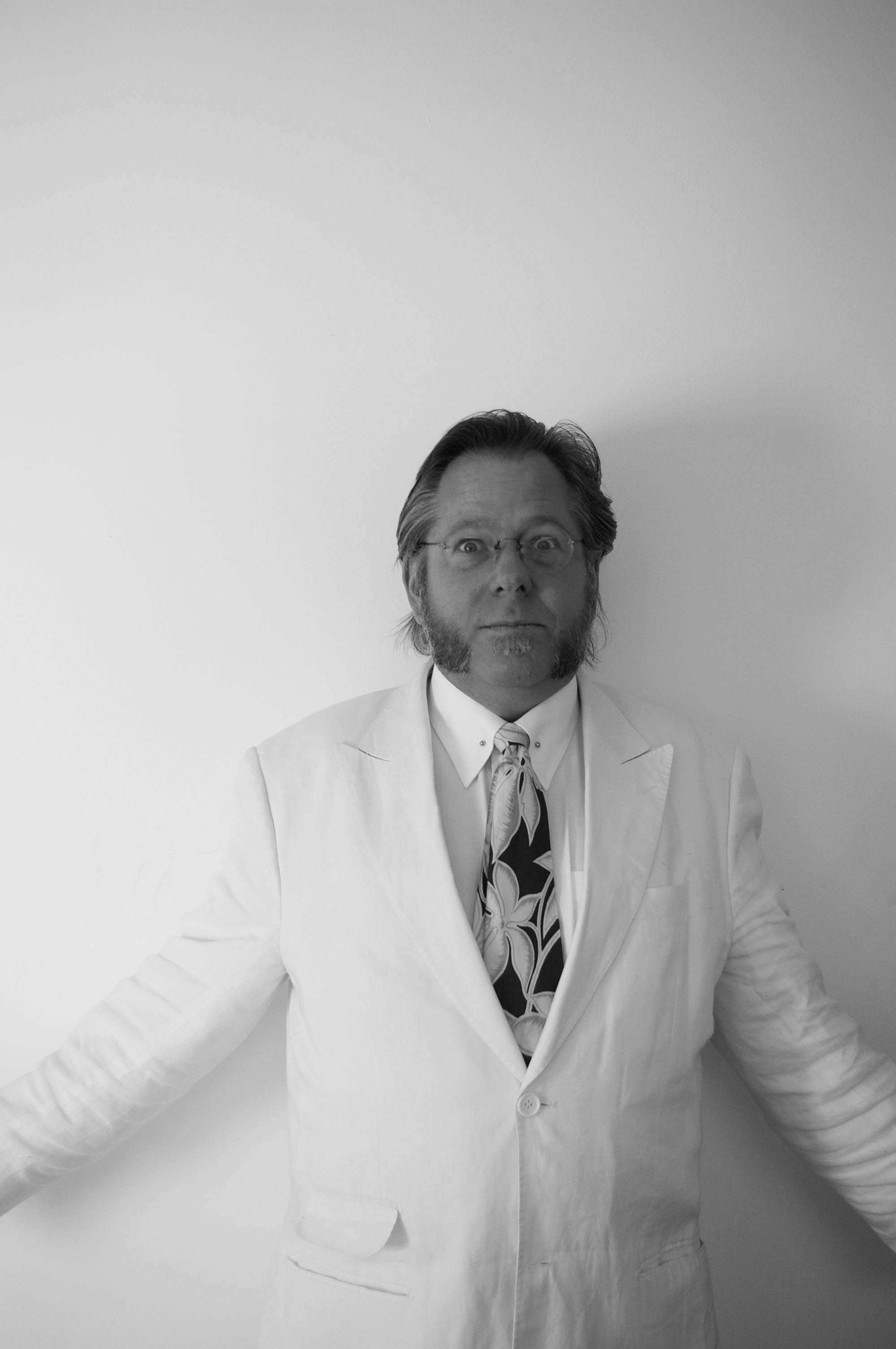 ralph carney photo